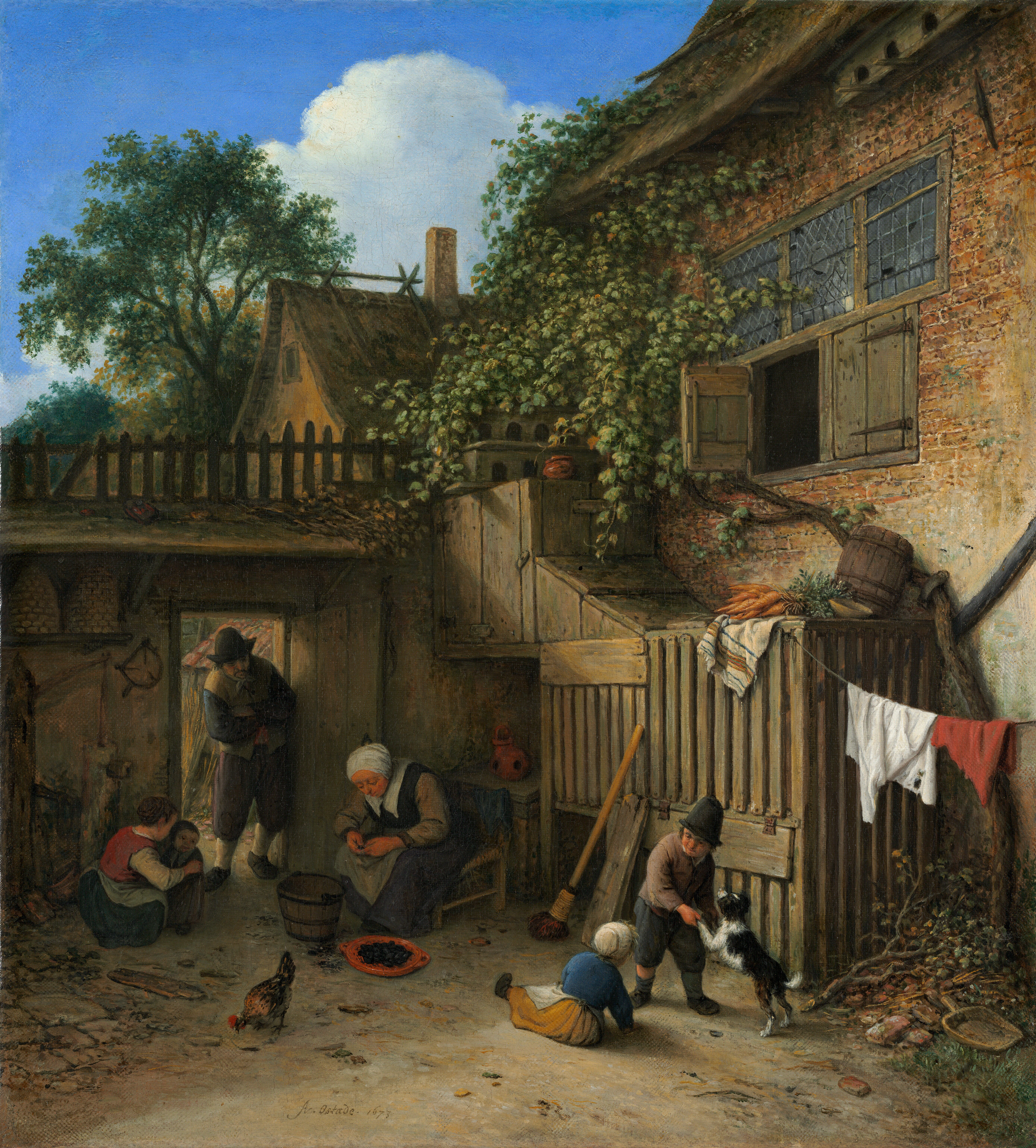 Title: The Cottage Dooryard Year: 1673 Artist: Adriaen van Ostade Picture taken at: National Gallery of Art, Washington, D.C., USA